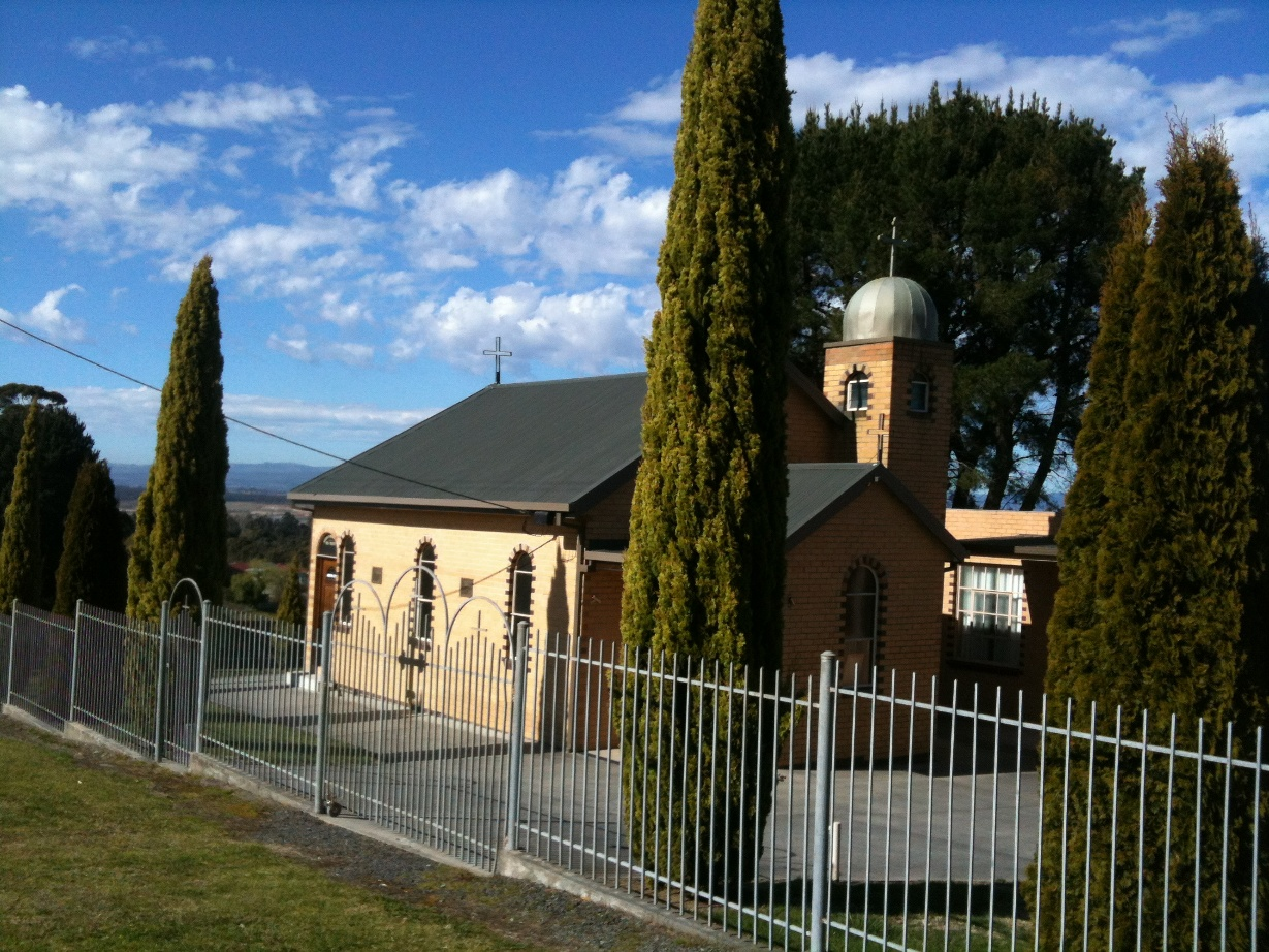 The Holy Trinity Serbian Orthodox Church as it stands today - Sept 2012